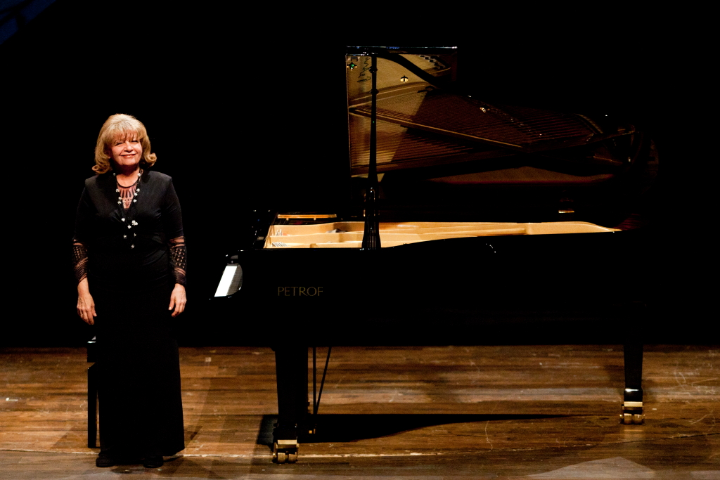 İdil Biret (born 21 November 1941 in Ankara, Turkey), Turkish concert pianist at Küçükçekmece, Turkey in 2012.